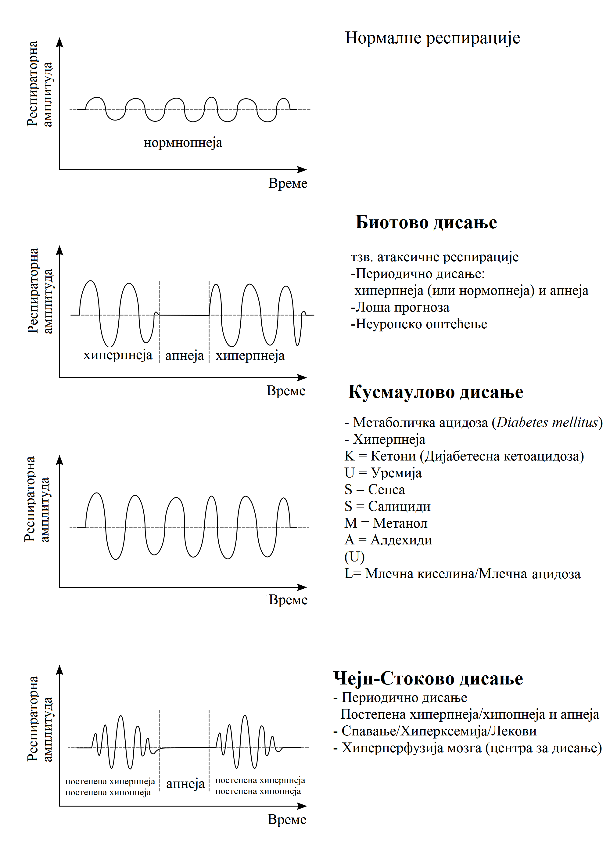 Respiratory abnormalities (in Serbian) -- Breathing abnormal patterns that can help diagnose or discover the underlying cause of pathological breathing. 4 graphs resembling: Normal breathing, Cheyne-Stokes respiration, Biot's respiration and Kussmaul breathing